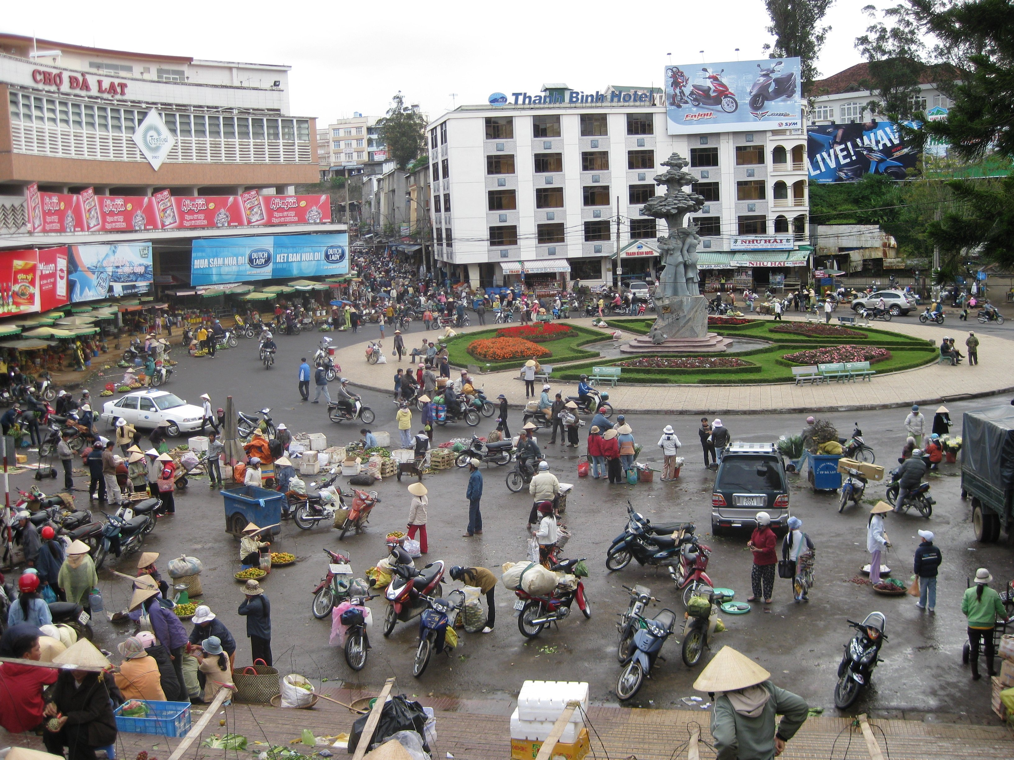 Dalat Market in the morning